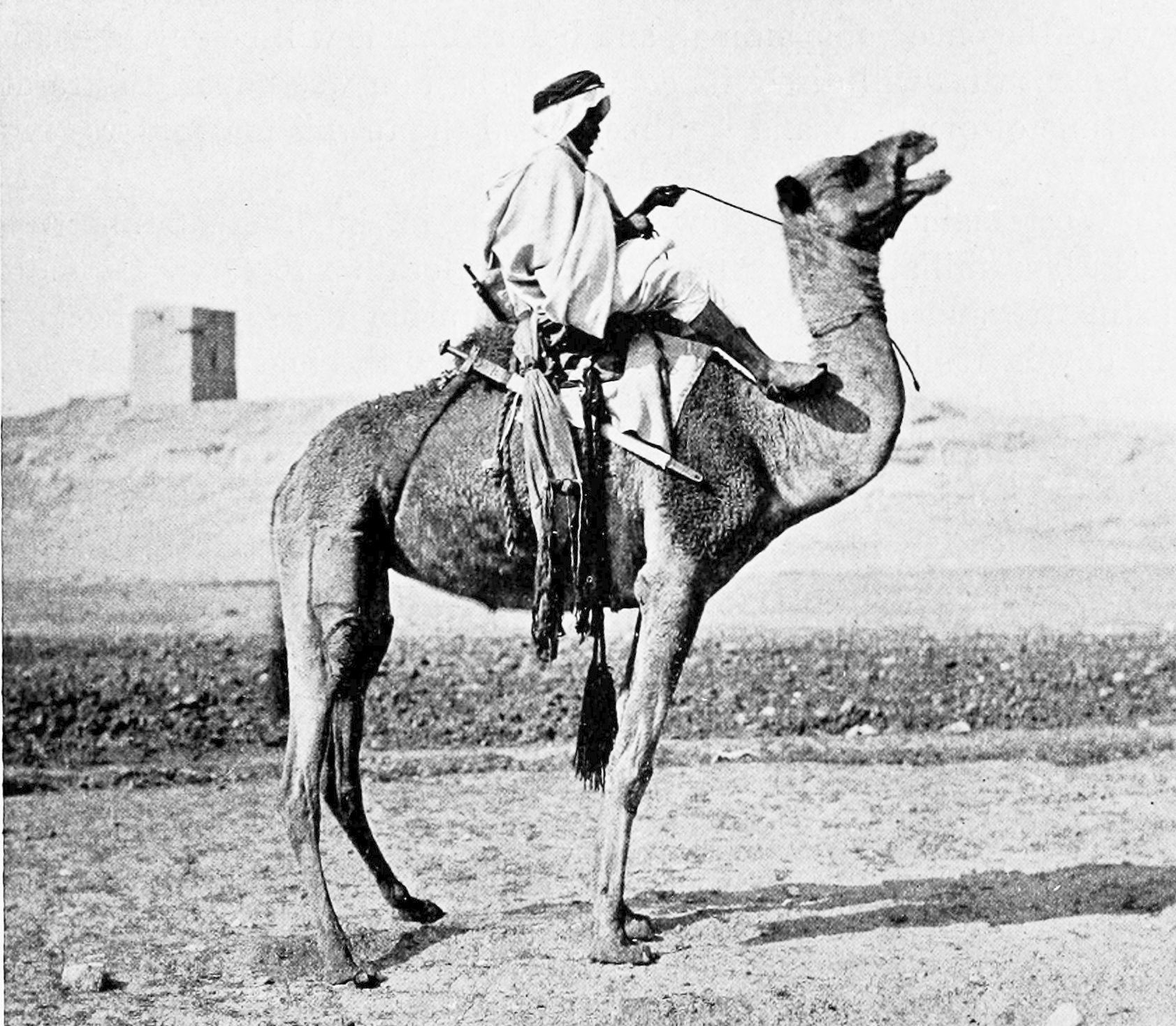 Leader of the caravan